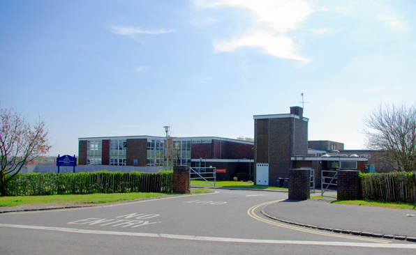 Marshlands Primary School, Hailsham On the urban part of Marshfoot Lane.